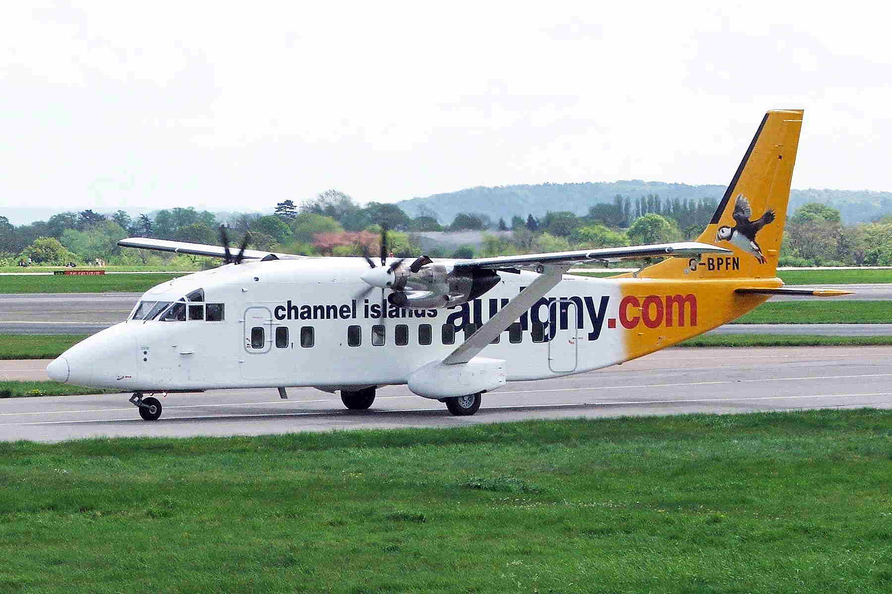 A picture of an airplane (name of it is on the file name).